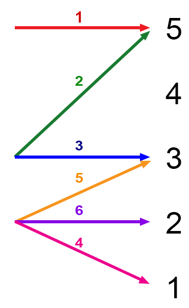 Chart showing the relative changes in pitch for the 6 tones of Cantonese. On a scale of 1 to 5 with 5 being the highest pitch, the first, third and sixth tone remains constant at 5, 3 and 2 respectively, the second and fifth tone rises from 3 to 5 and 2 to 3 respectively, and fourth tone falls from 2 to 1.